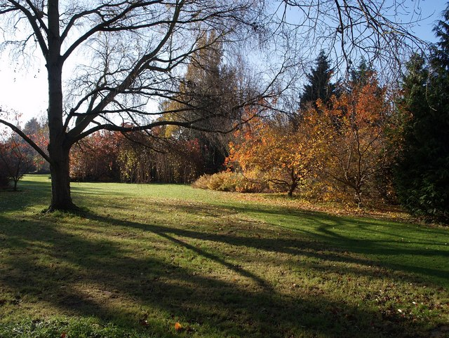 Autumn Garden, University Botanic Garden, Cambridge A view in the northeastern sector of the gardens. The Autumn Garden is between East Walk and Martyn Walk.